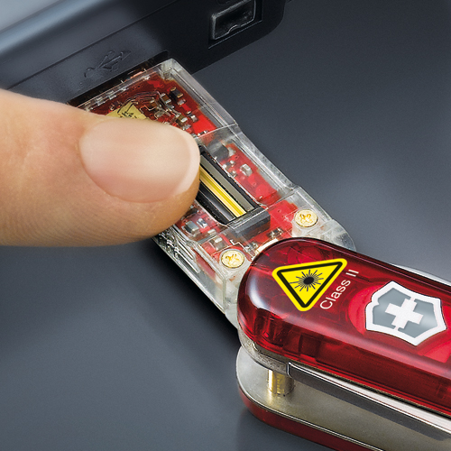 Victorinox Secure USB Stick with Fingerprint Reader